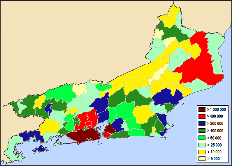 Map of Rio de Janeiro municipalities by population.